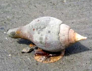 photo of Turbinella laevigata.